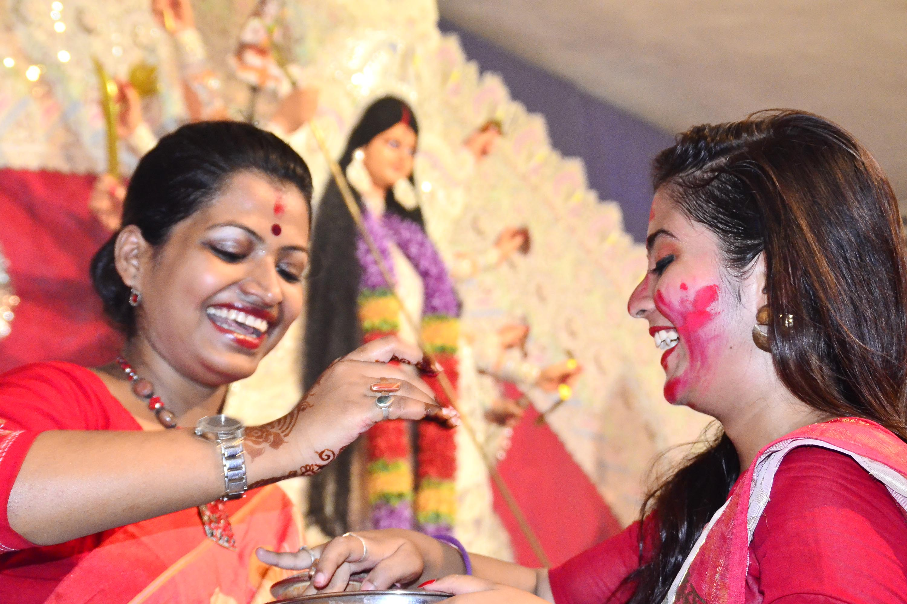 Bengal girls participate in Sindur Khela smearing of the vermilion on Durga Puja's last day Bijoya Dashami at a Durga puja pandal at Nowgong Bengali Association in Nagaon, Assam, India.